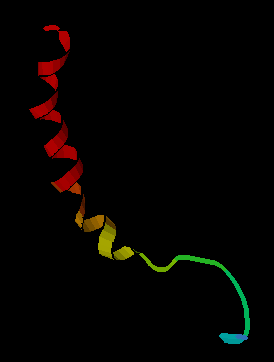 NMR solution structure of Neuropeptide Y Created by S. Jähnichen using KiNG kinemage Derived from the published structure (source: RCSB PDB Database (licence: PDB ID: 1RON from Monks, S.A., Karagianis, G., Howlett, G.J., Norton, R.S. (1996). Solution structure of human neuropeptide Y. J. Biomol. NMR 8: 379-390.